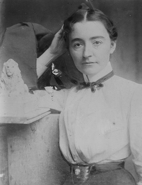 American sculptor Helen Farnsworth Mears (1878-1916)